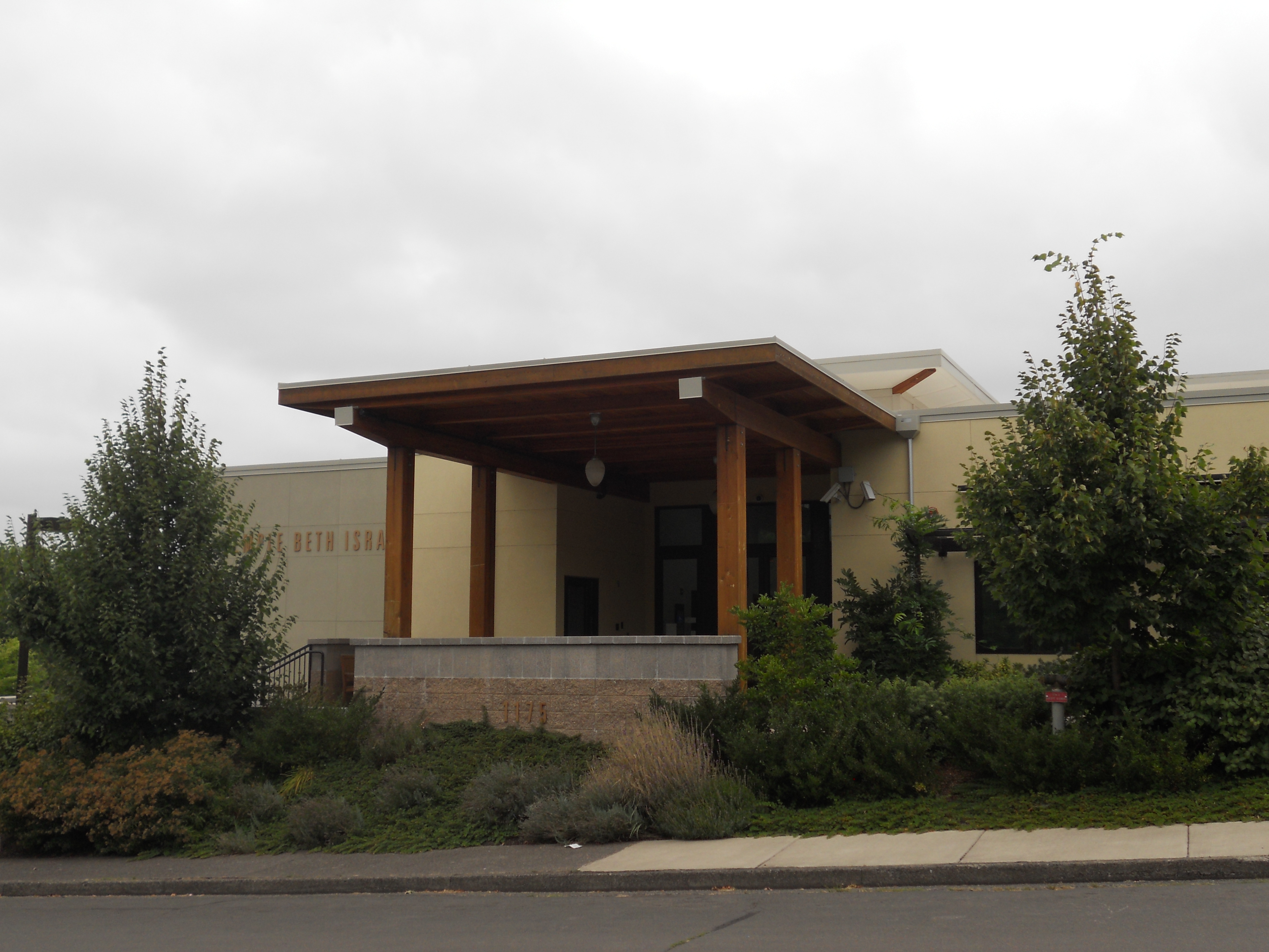 Temple Beth Israel, a Reconstructionist synagogue in Eugene, Oregon